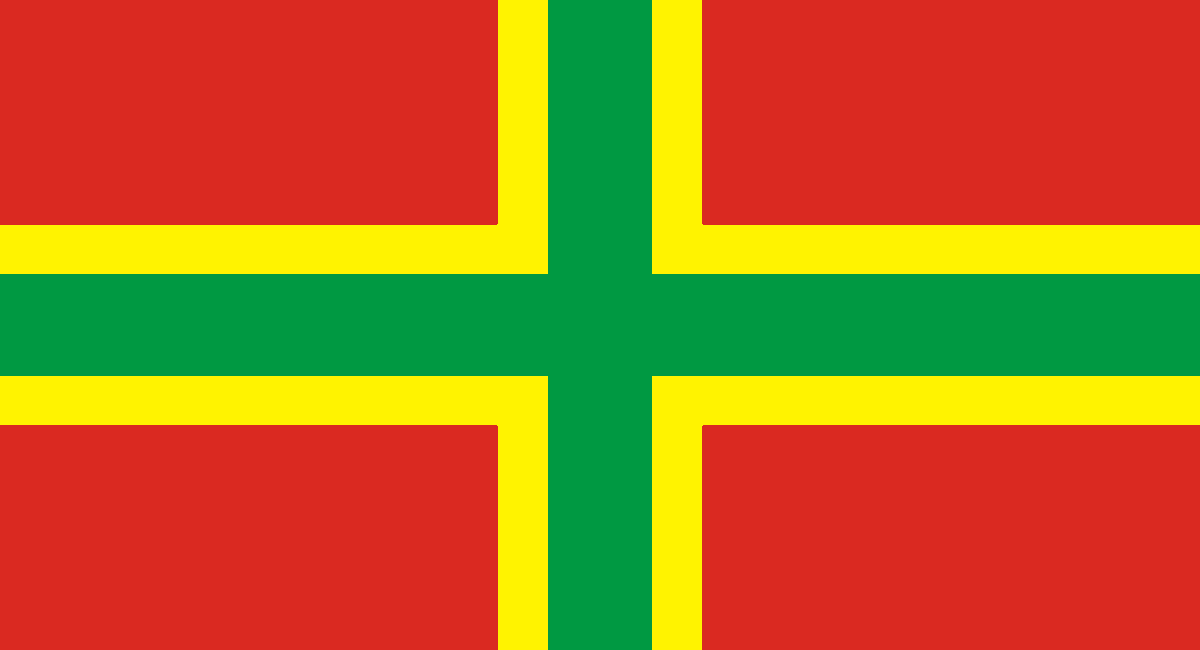 Flag of the Zomi Revolutionary Army.